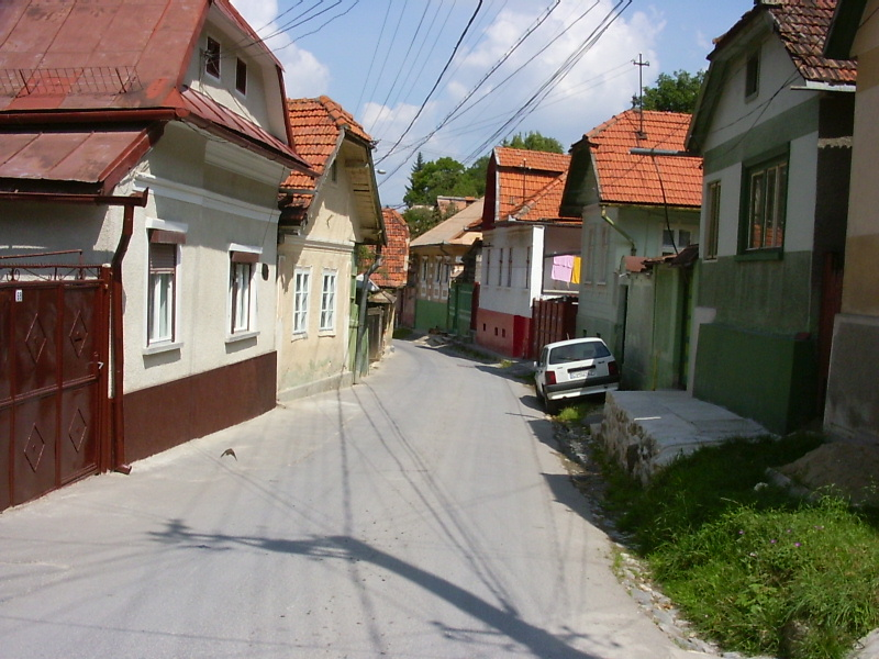 Pe Tocile, Brasov